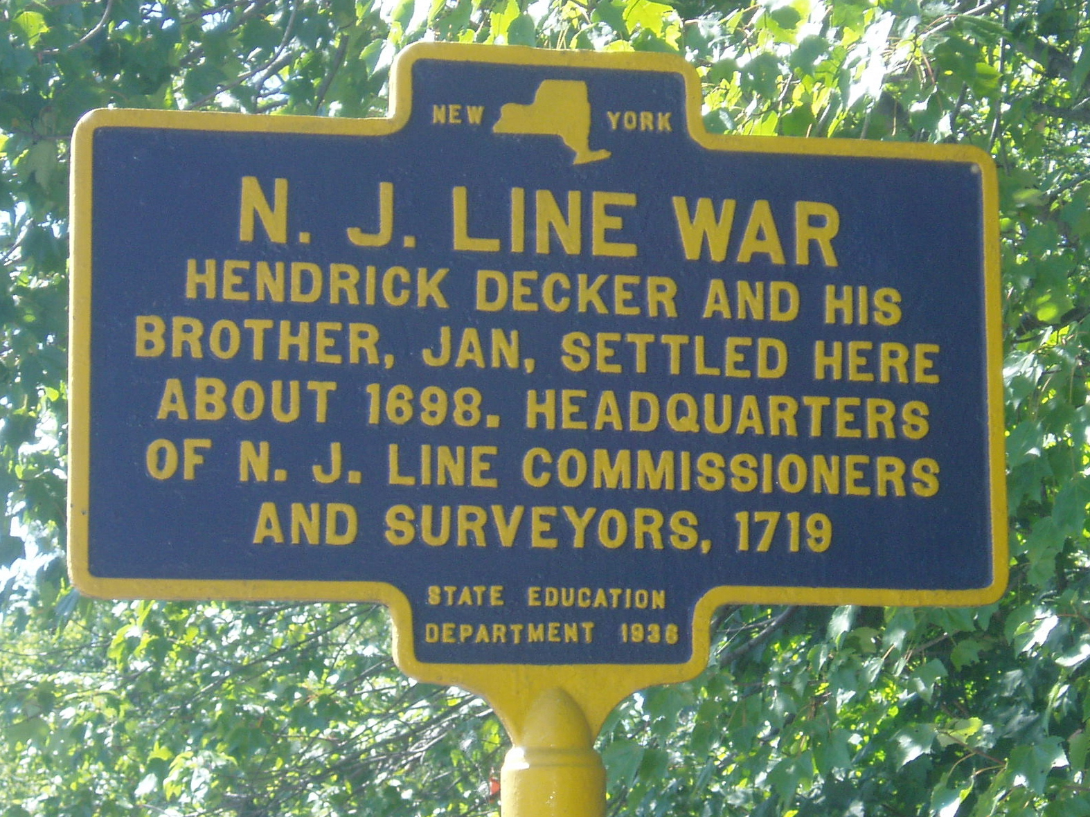 NJ Line War